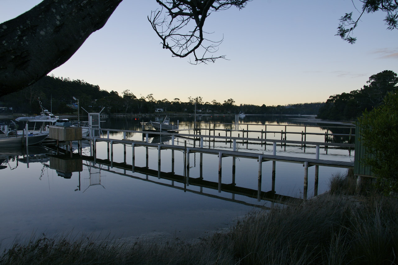 Jetties along the Prosser River at dusk, Orford, Tasmania. Photo by Ben Wells, B+W Design